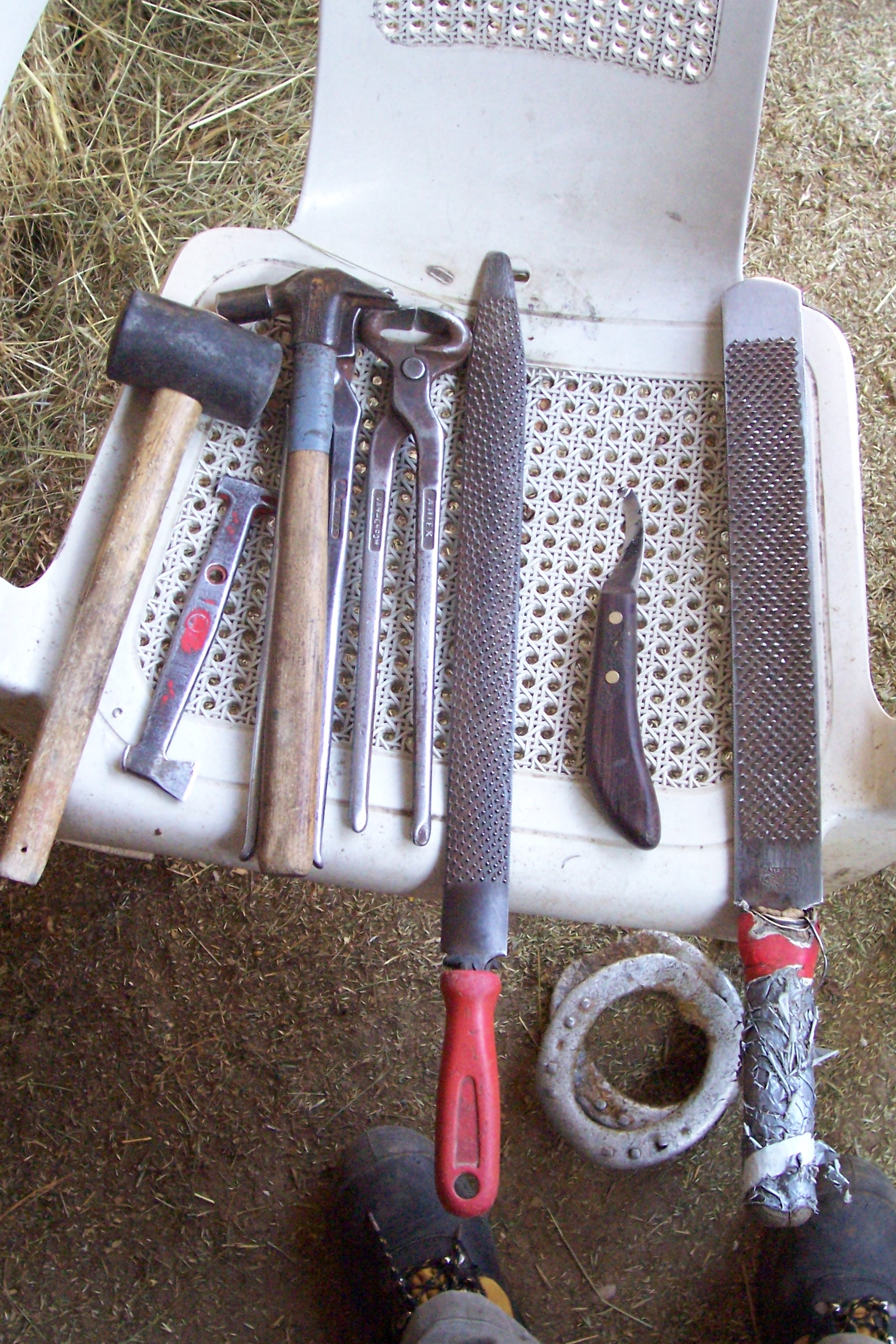 Tools of an italian farrier.